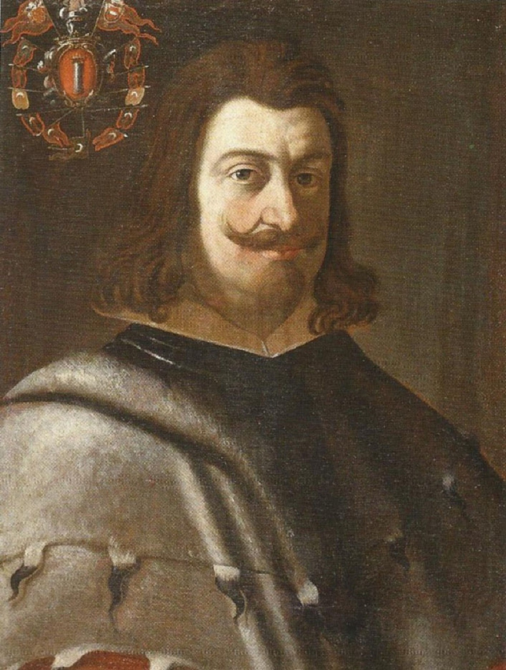 portrait of Prince Philip I Colonna